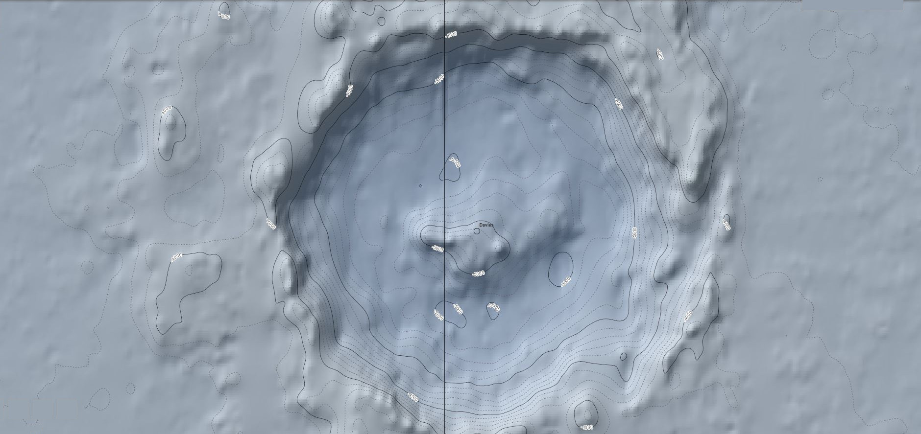 A topographic map created using Mars Orbiter Laser Altimeter (MOLA) data. This map show the relative elevation in 100 meter elevation contour lines (dashed) and 500 meter elevation contour lines (bold) with a total elevation uncertainty of +/- 6 meters.